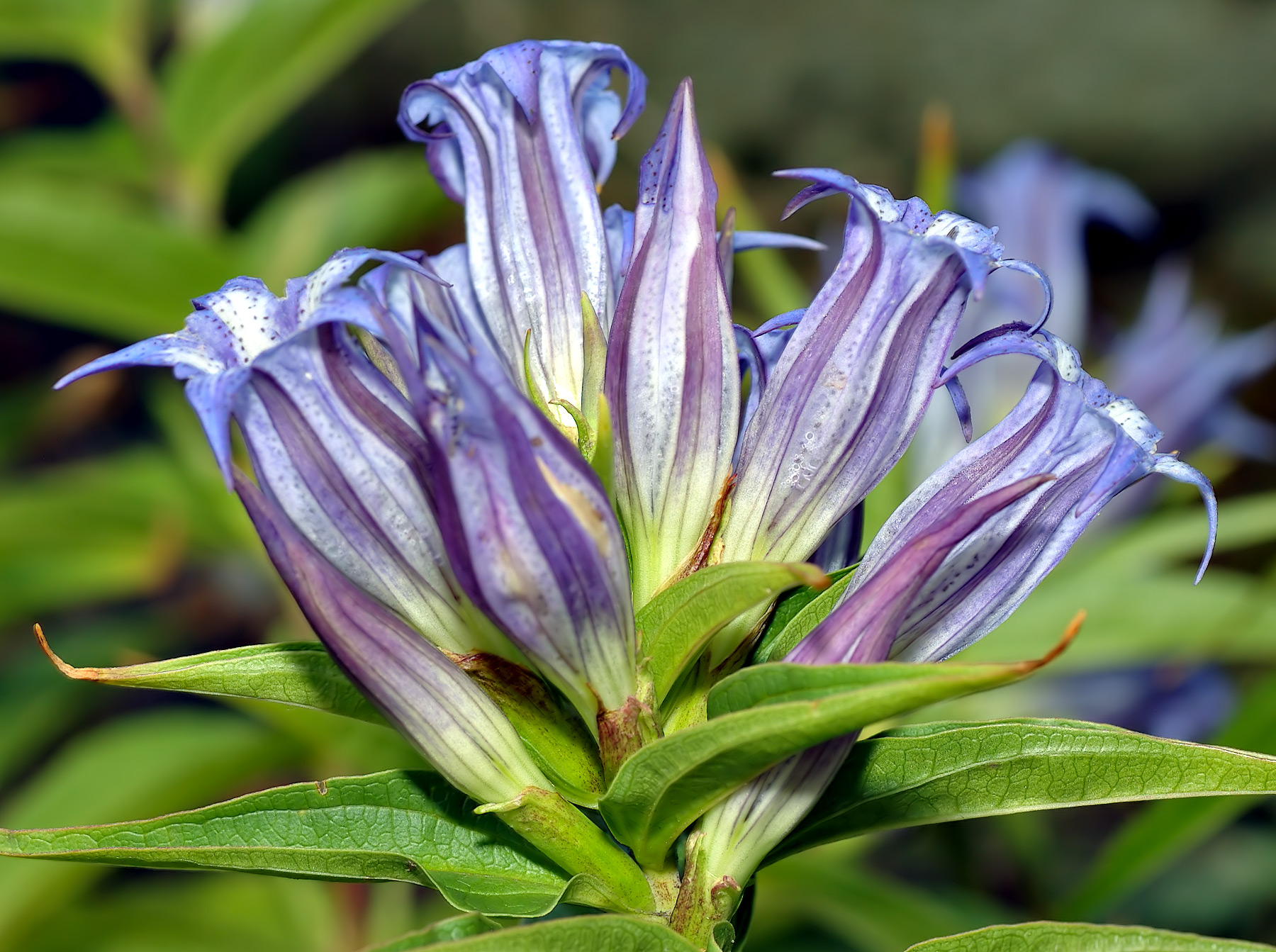 This image shows the blossom of a Willow Gentian (Gentiana asclepiadea).